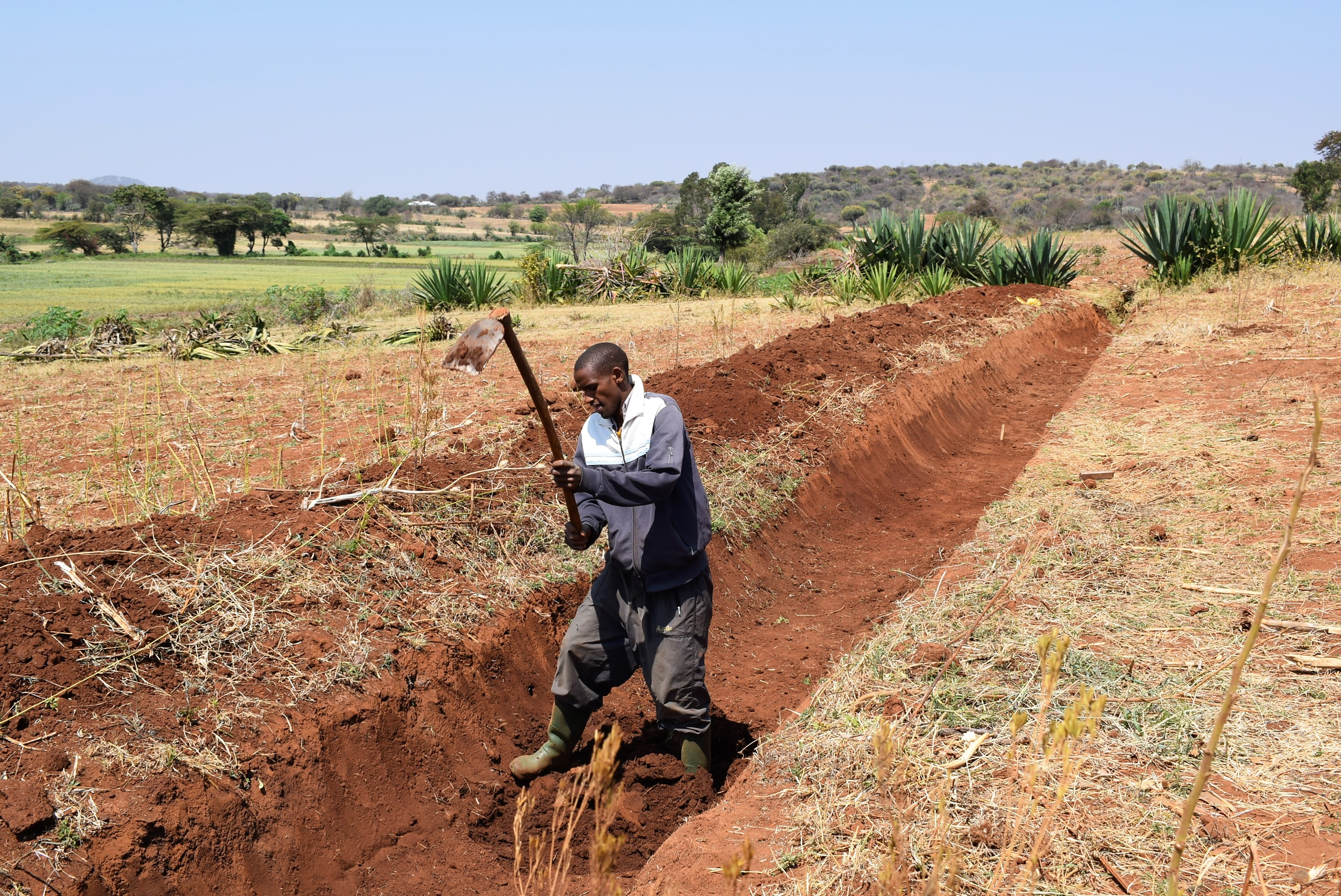 Men digging an irrigation canal in Dirim with his hoe This is an image of "African people at work" from Tanzania